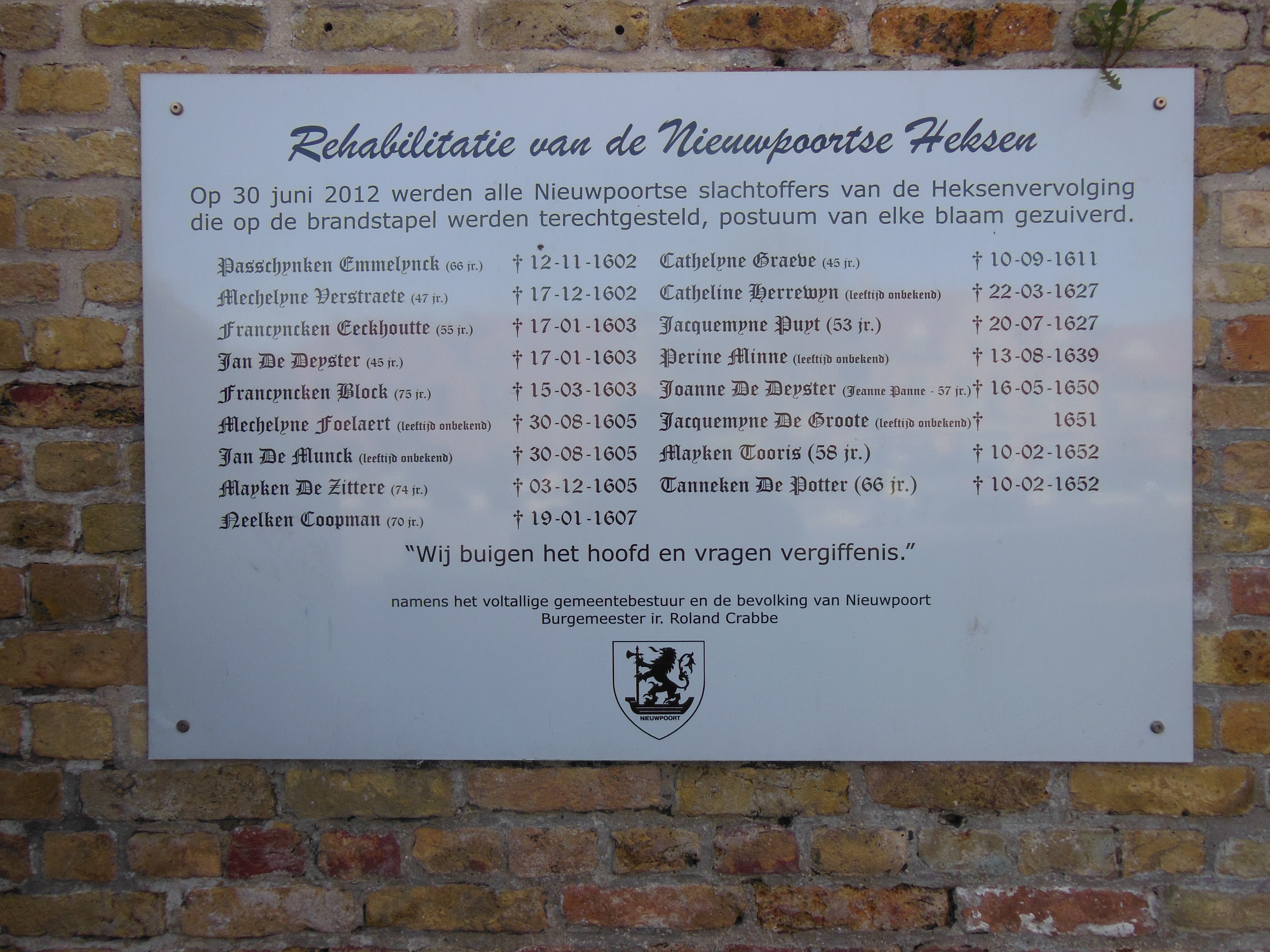 A plate mentioning the names of Nieuwpoort witches who died on the witch’s pyre from the year 1602 till 1652 Translation of the Dutch text on the plate: Rehabilitation of the Nieuwpoort witches. On June 30, 2012 all Nieuwwpoort victims of the witch persecution who died on the witch’s pyre were posthumously acquitted of all blame Follows a list of names, among them “Joanne De Deyster (Jeanne Panne-57 jr.) We bow and ask for forgiveness On behalf of the entire City Council and the people of Nieuwpoort The Mayor ir. Roland Crabbe